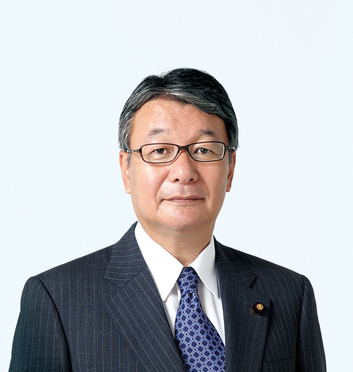 Minister Junzō Yamamoto.